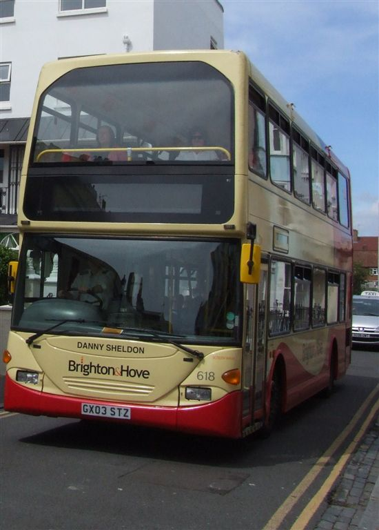 Brighton & Hove 618 Danny Sheldon (GX03 STZ), a Scania OmniDekka, in Brighton, on a special service connected with the London to Brighton bike ride.